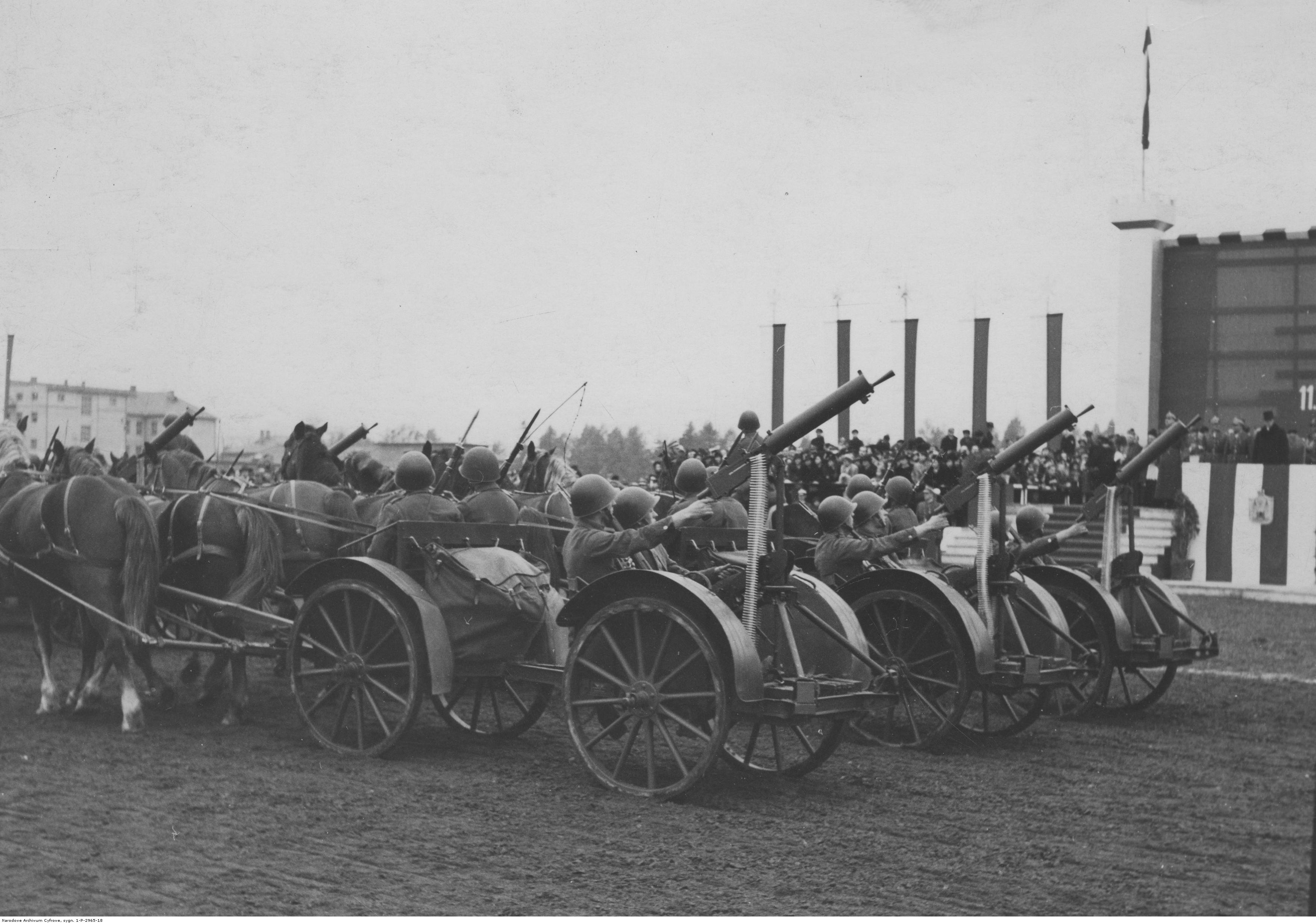 Polish MG-carts (taczanka) with wz.30 MGs.